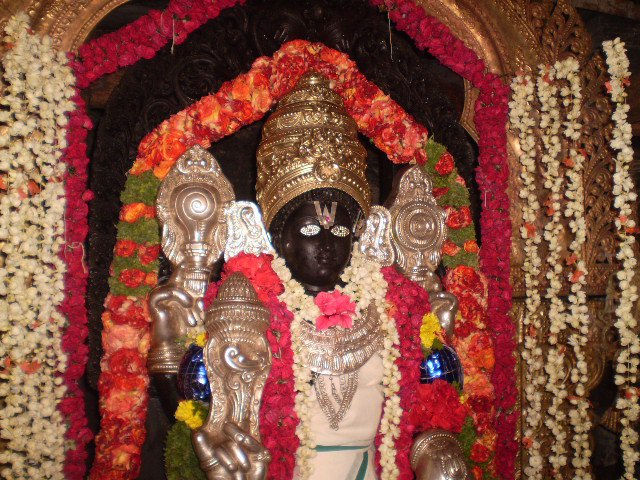 The Lord Chennakeshava present in the small village of Anekere